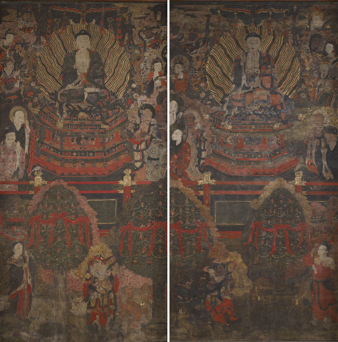 Two panels of a temple mural from the Ming dynasty of China depicting the Pure Land of Amitabha.